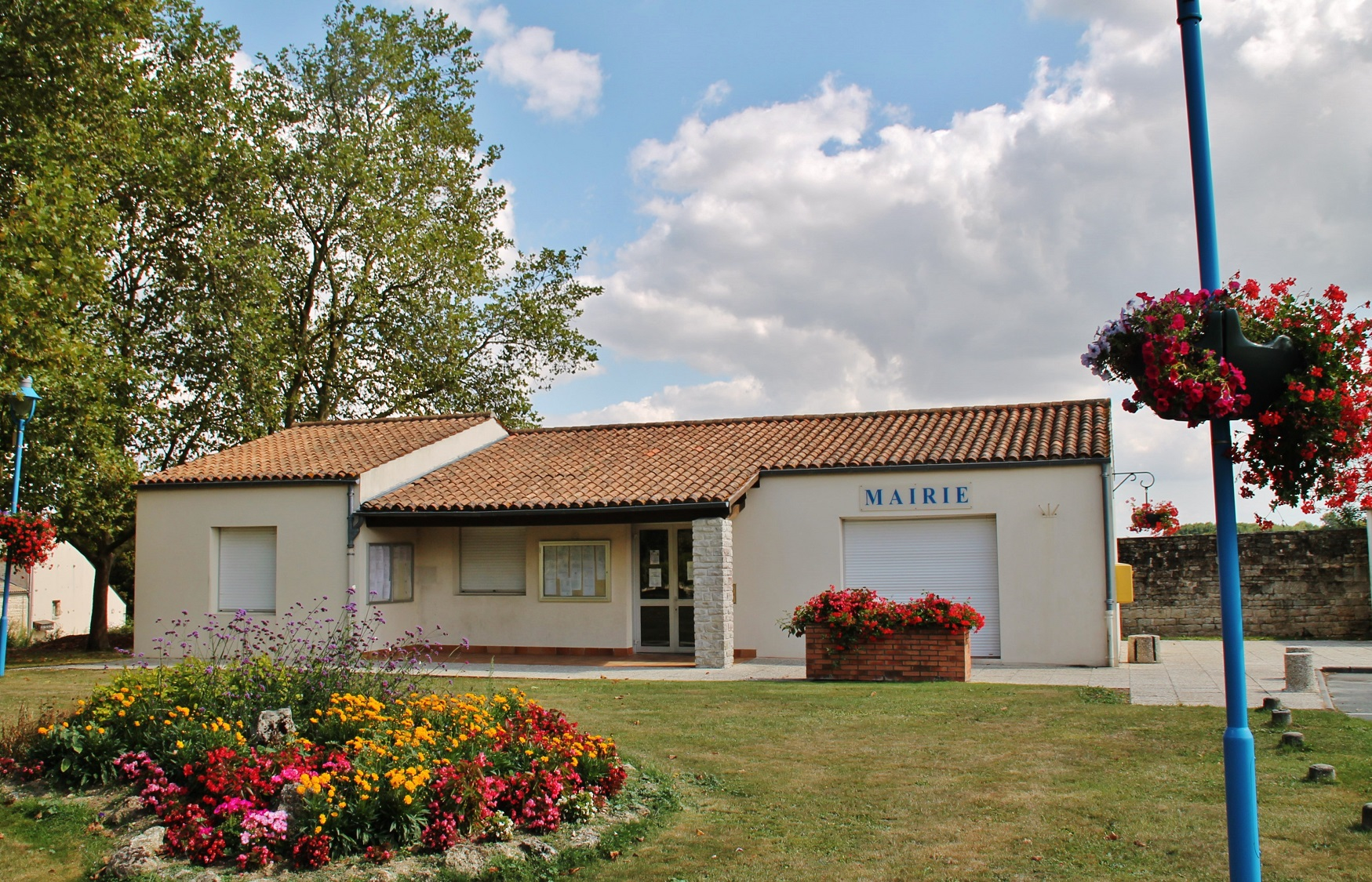 La Mairie